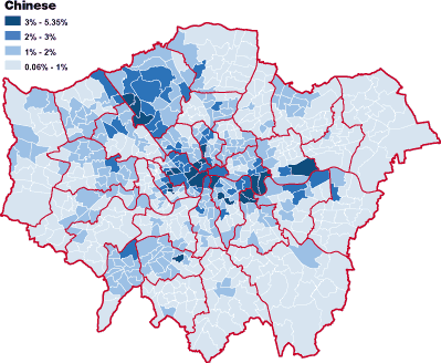 Demography of the Chinese population in London, UK